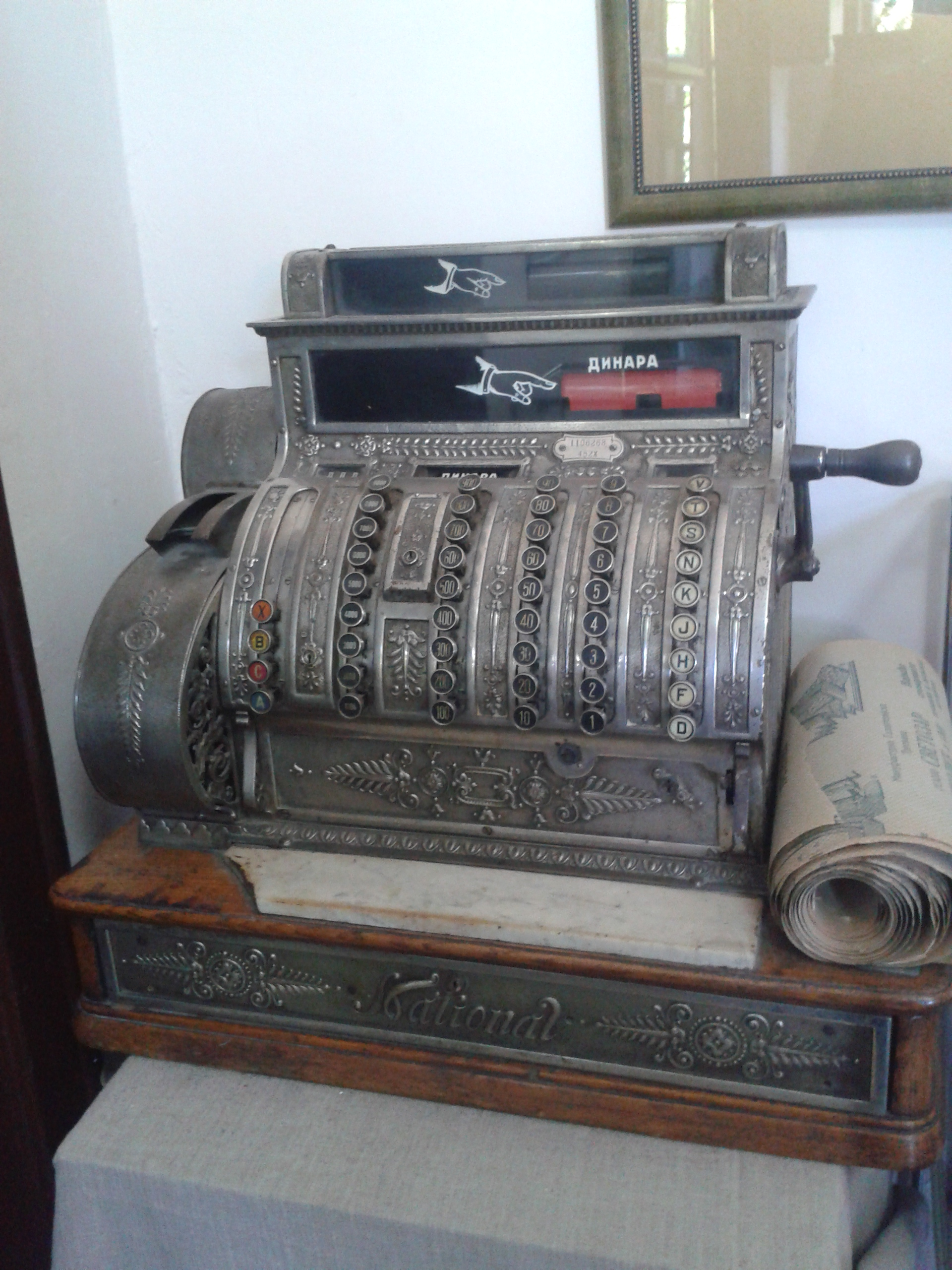 Old cash register in the Homeland Museum of Trstenik Српски (ћирилица): Стара каса у Завичајном музеју у Трстенику